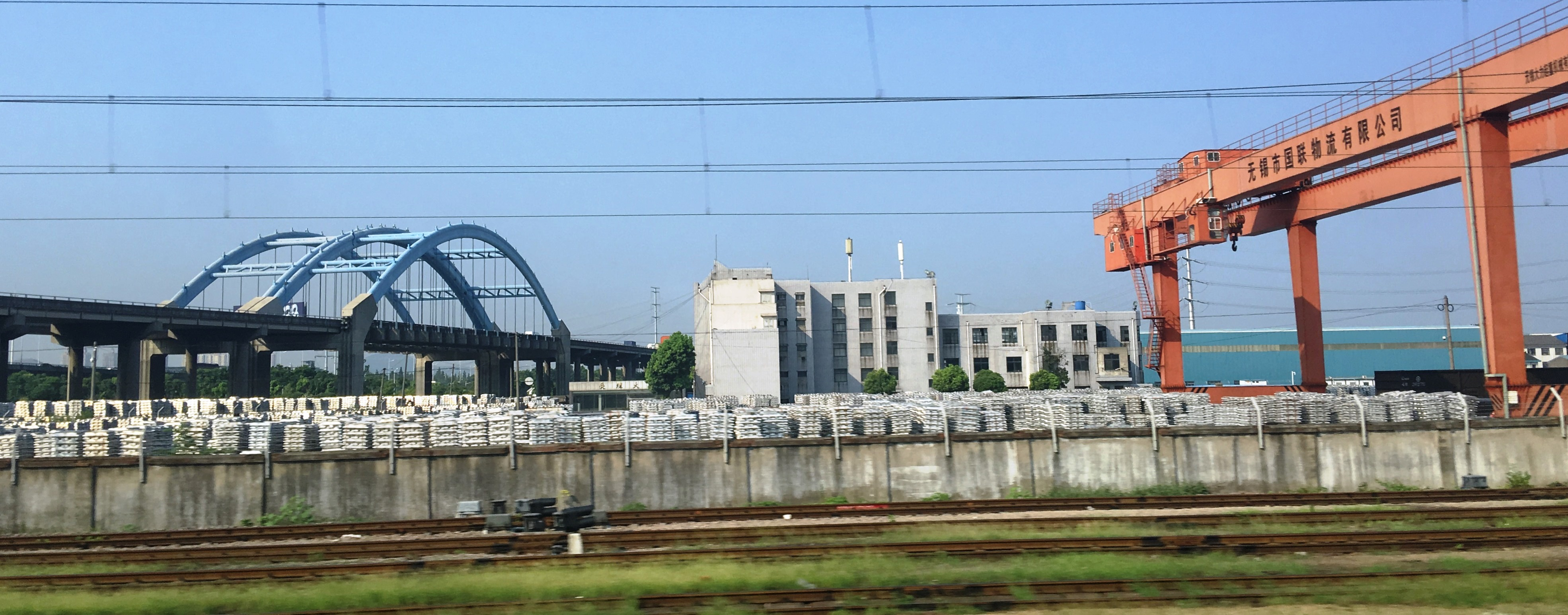 Largely industrial area of Huishan District in the city of Wuxi, Jiangsu (China).